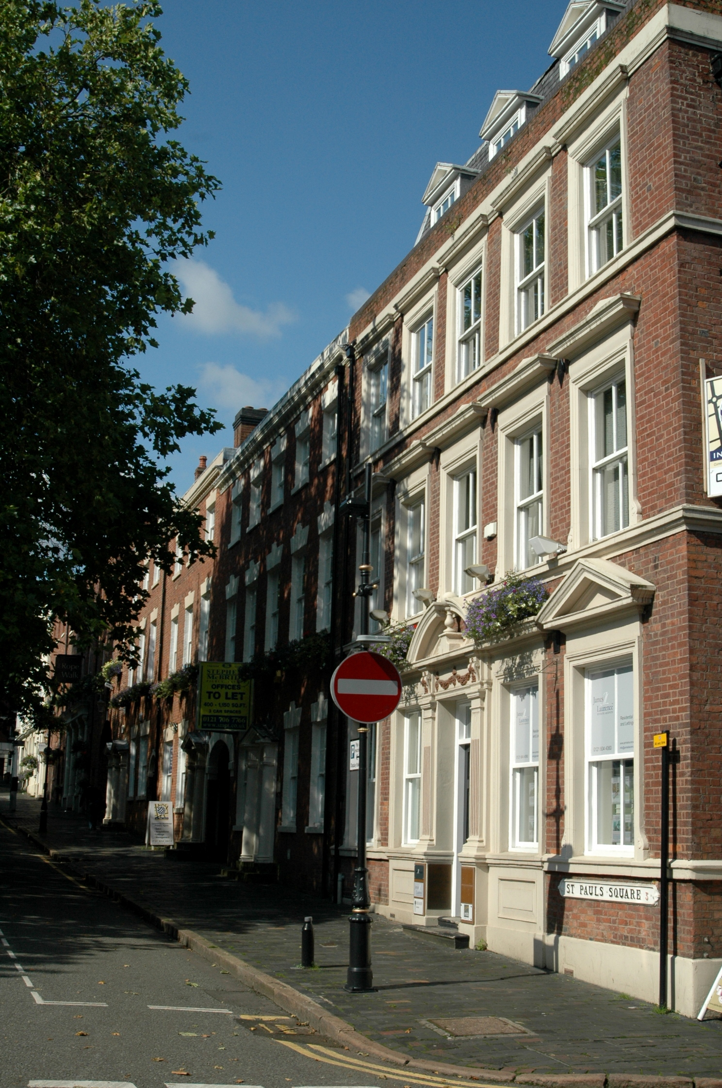 Numbers 11-14 St Paul's Square, all Grade II listed buildings. These are 18th and 19th century properties that overlook St Paul's Square in the Jewellery Quarter, Birmingham, England.